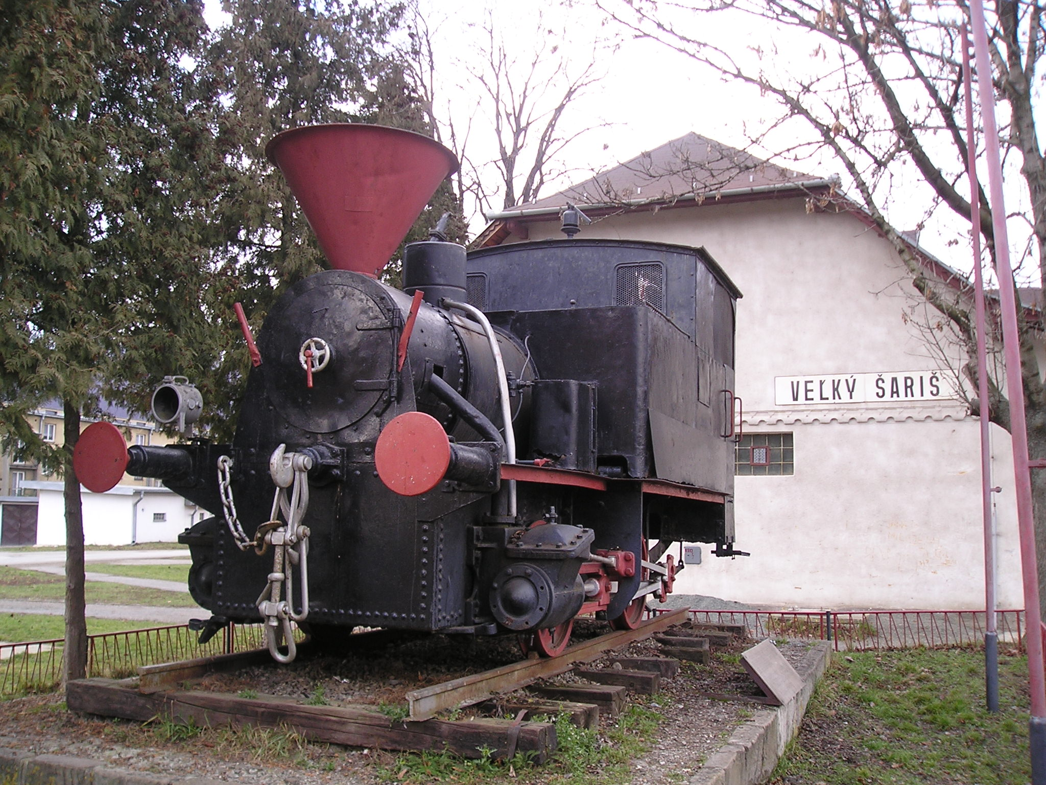 Historical locomotive - railway station Velky Saris.